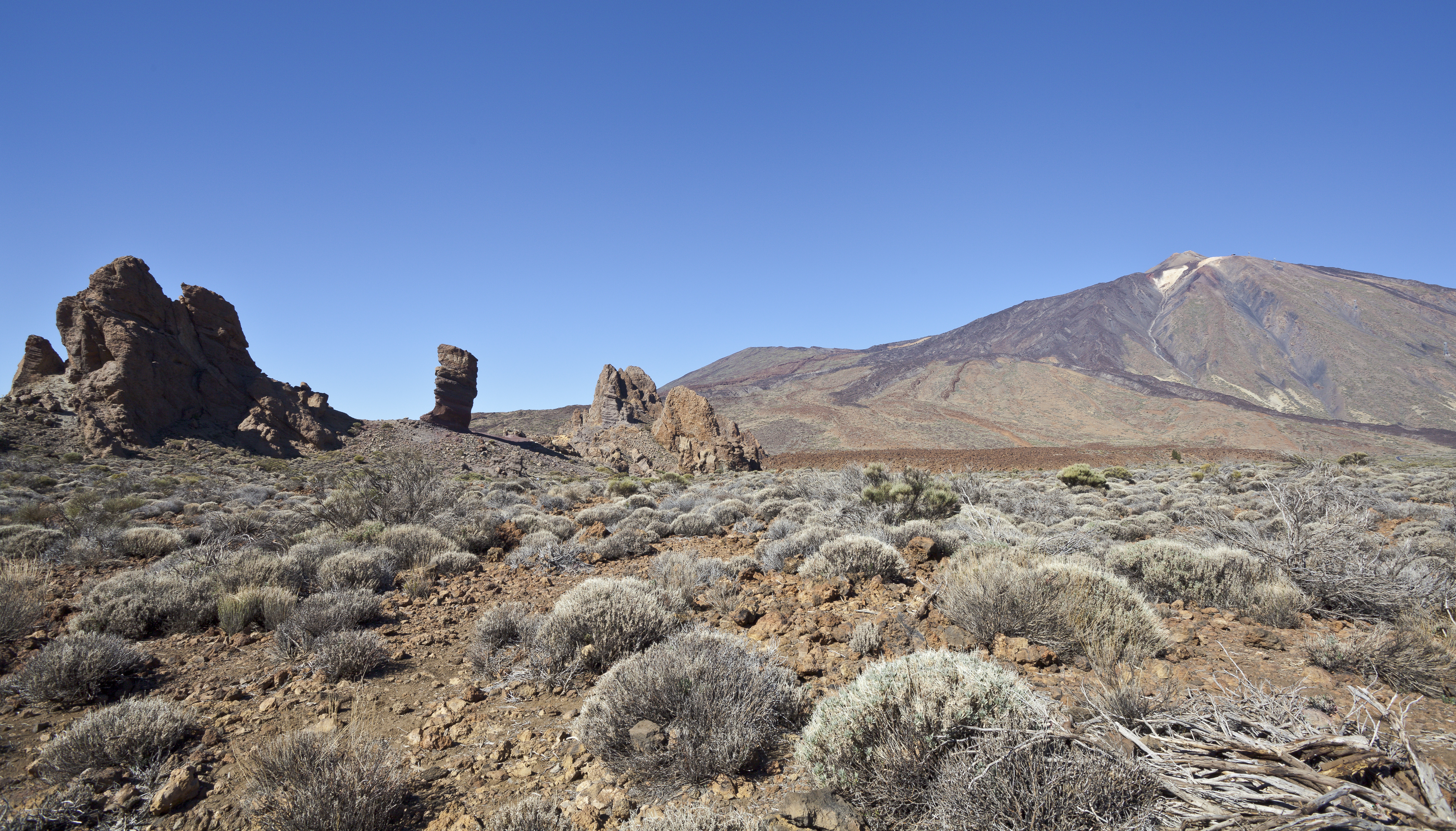 Roque Cinchado, Teide National Park, Santa Cruz de Tenerife, Spain